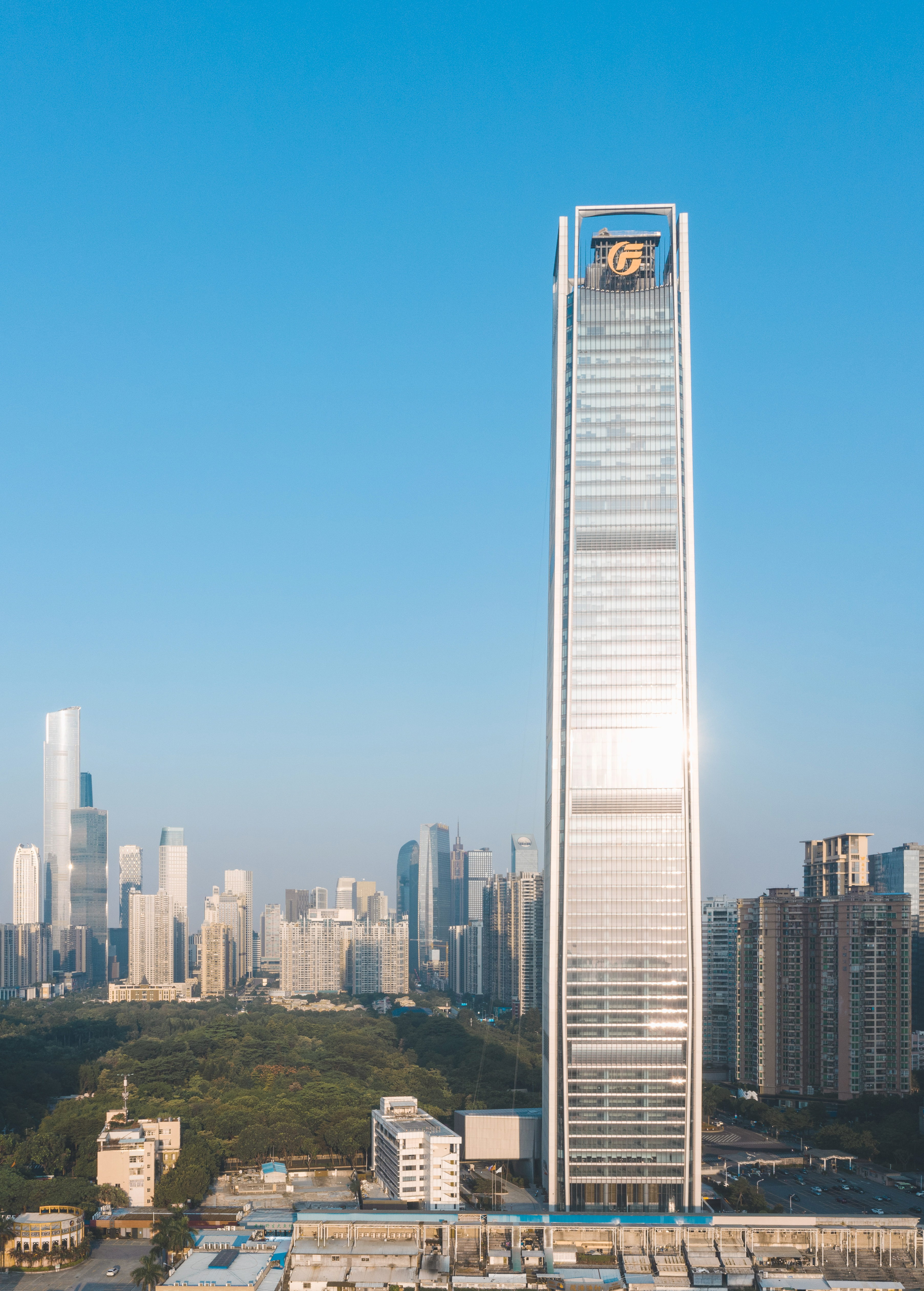 Guangfa Tower Front View